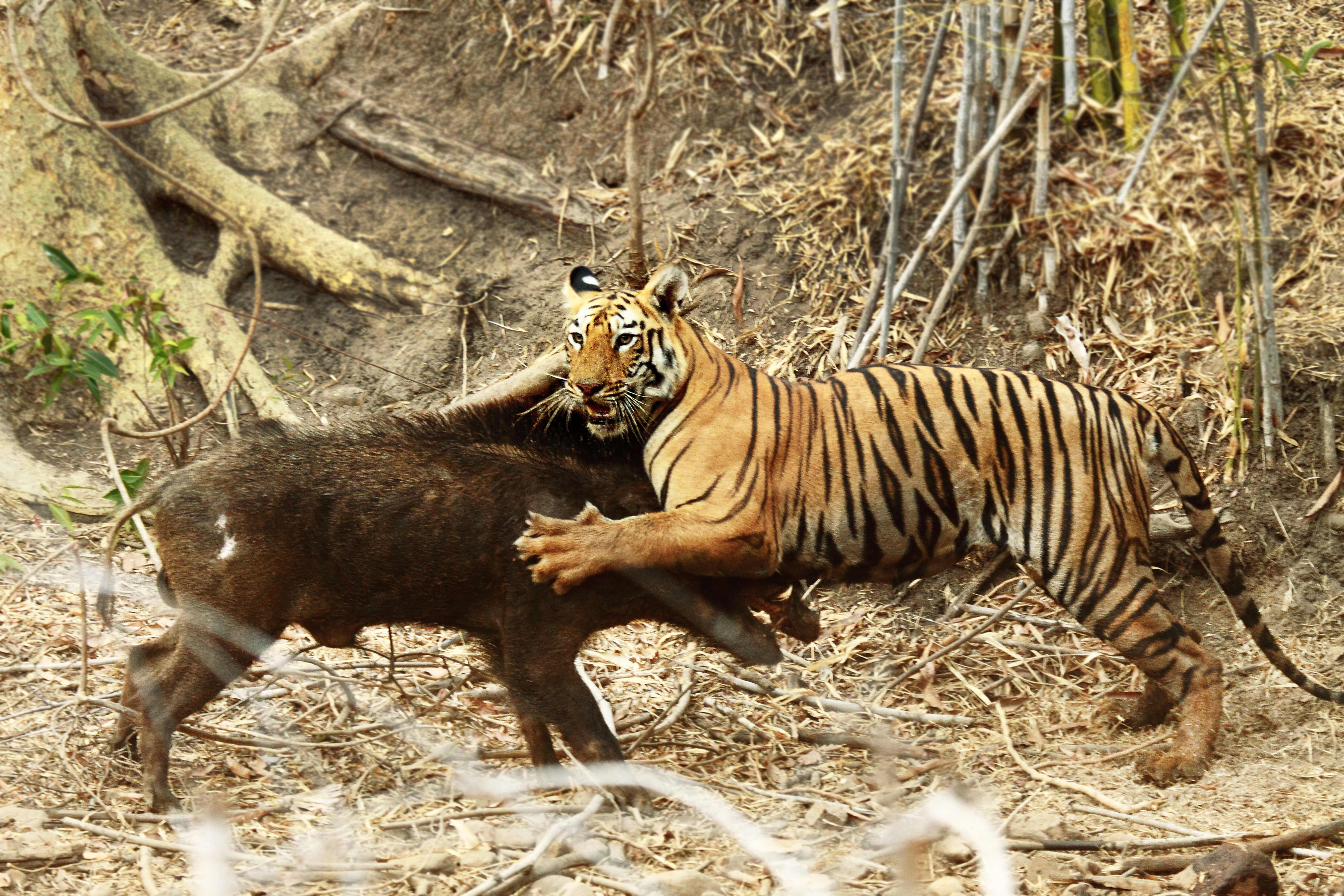 THE PHOTOGRAPH WAS TAKEN AT TADOBA NATIONAL PARK,MAHARASTRA,INDIA.THE ILL-FATED WILD BOAR CAME TO QUENCH ITS THIRST AT A WATER HOLE WHILE THE YOUNG TIGRESS WAS HAVING ITS EVENING SOAK AT THE SAME PUDDLE.BUT THE WILD BOAR WAS SO THIRSTY THAT INSPITE OF NOTICING THE PREDATOR STILL WENT TO DRINK WATER AT THE PUDDLE,THEN THE OBVIOUS THING TOOK PLACE BEFORE MY EYES.THE TIGRESS POUNCED ON IT AND A TERRIBLE SCUFFLE TOOK PLACE BETWEEN THEM BUT ULTIMATELY THE BOAR HAD GIVE IN TO THE MIGHTY PREDATOR.